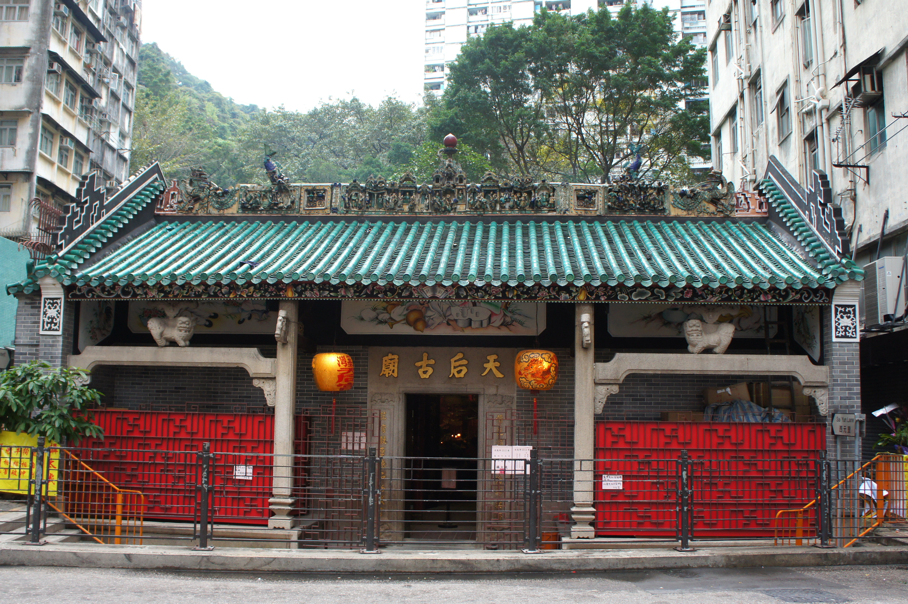 Tin Hau Temple, Shau Kei Wan, Hong Kong.